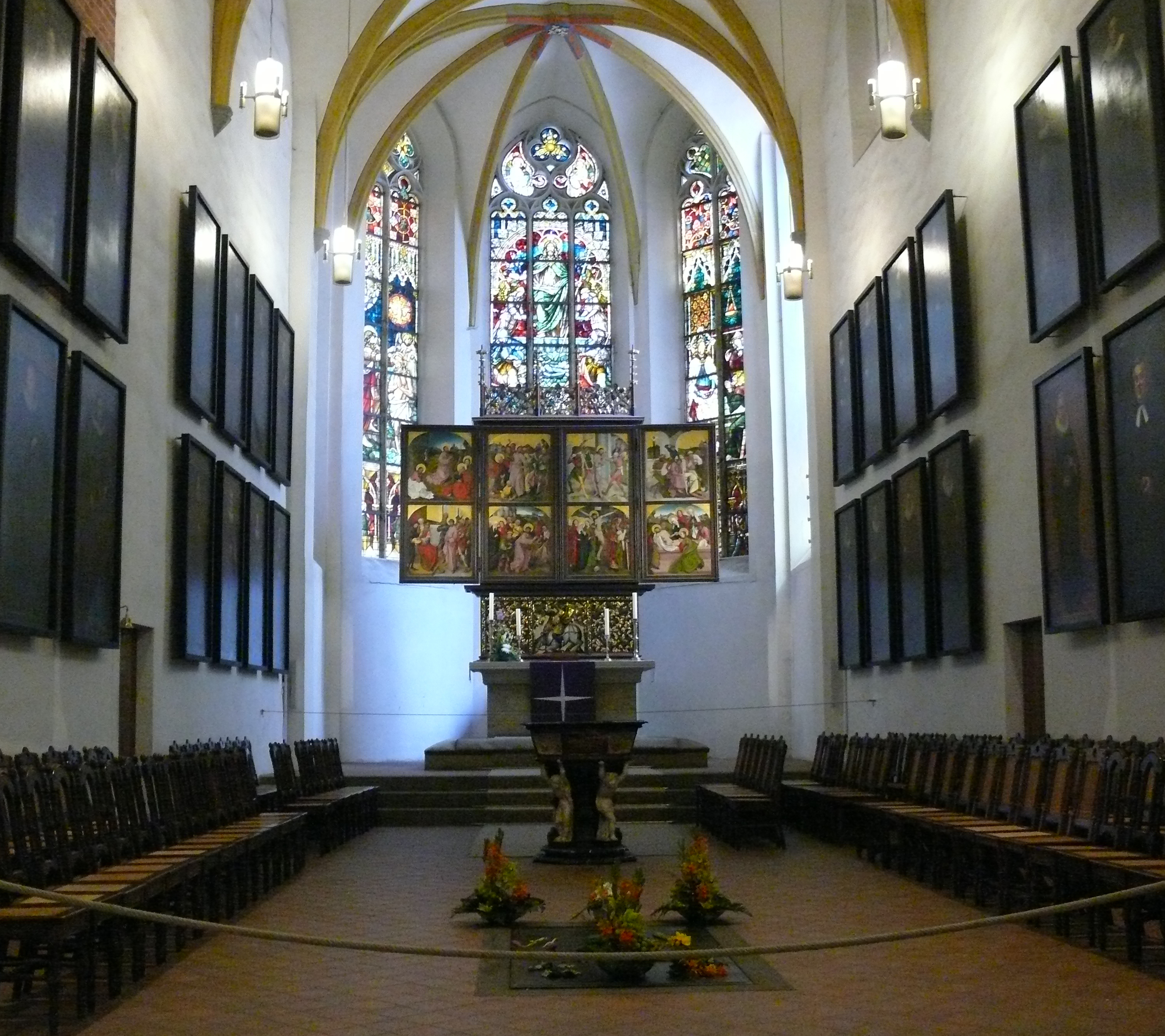 Interior of Thomaskirche, Leipzig, Germany.